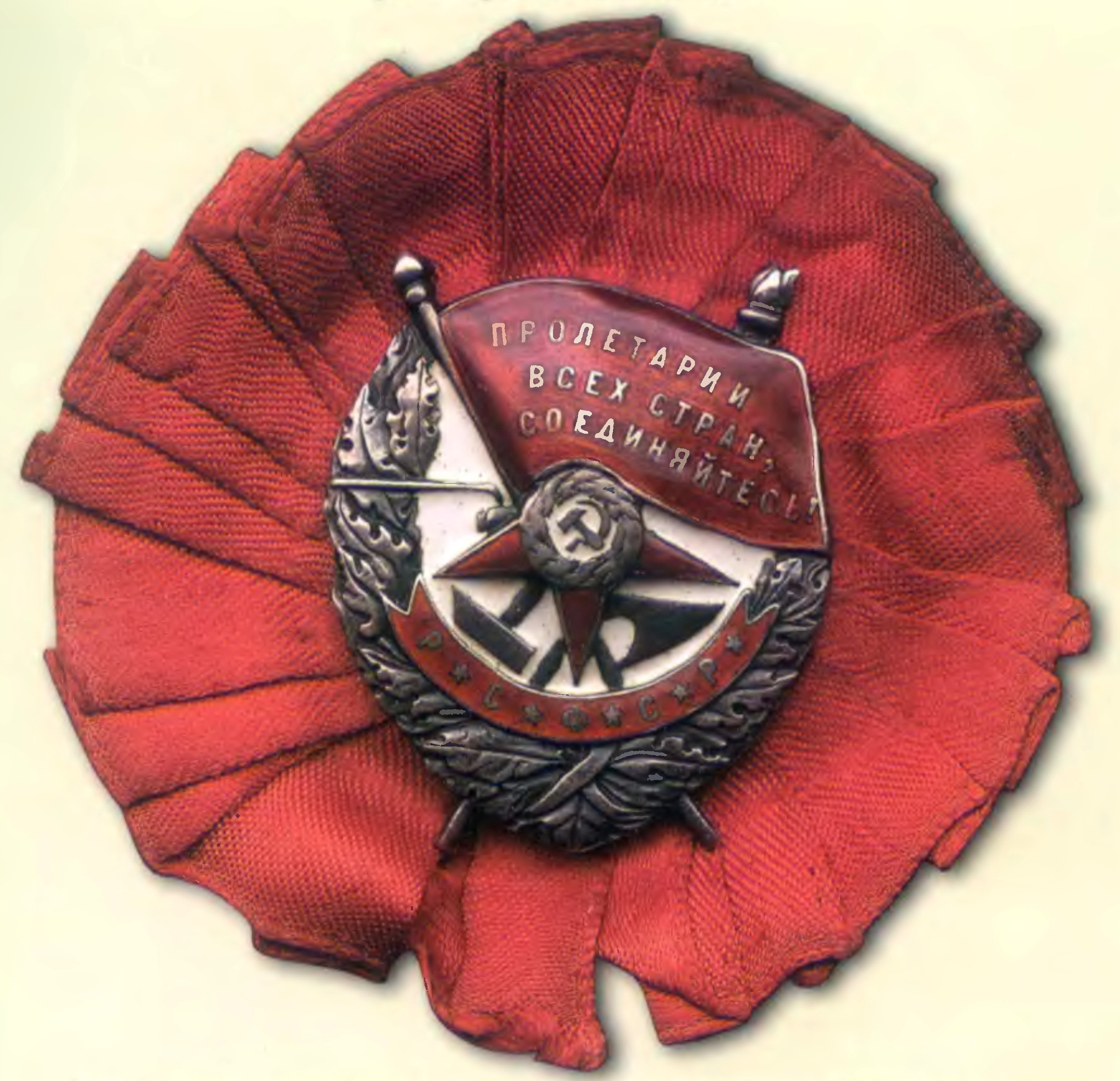 Soviet battle order Of Red Banner